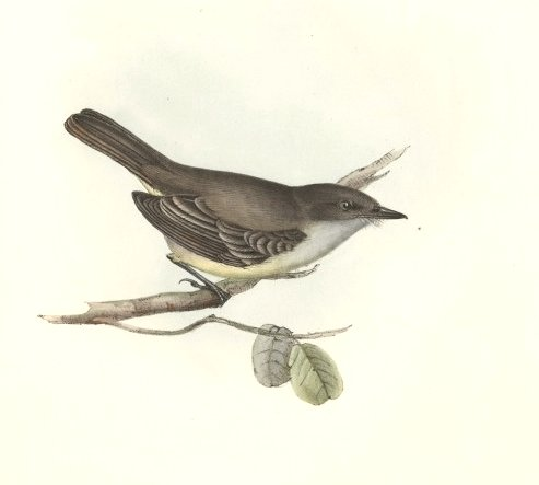 Myiarchus magnirostris (Gould, 1838) (Original description: Myiobius magnirostris explanation for modern name here)